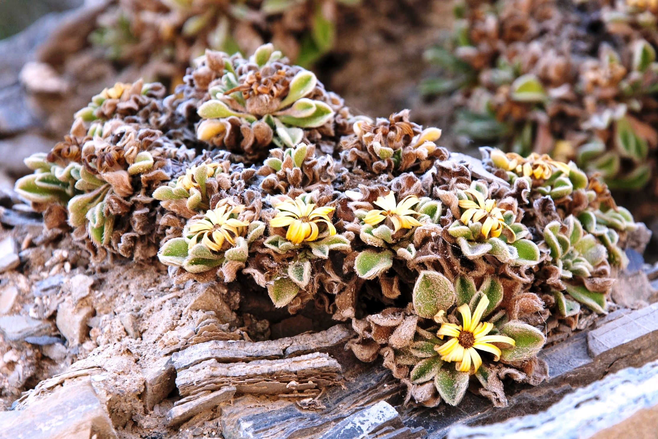 Pallenis maritima (L.) Greuter (1997) Favignana, Sicily